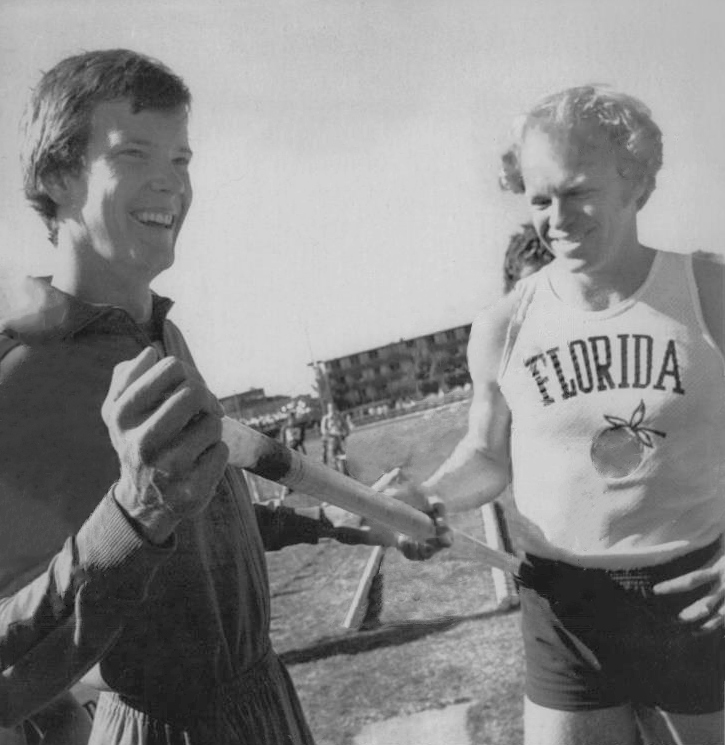 1976 Press Photo Dave Roberts Sets Pole Vault Record